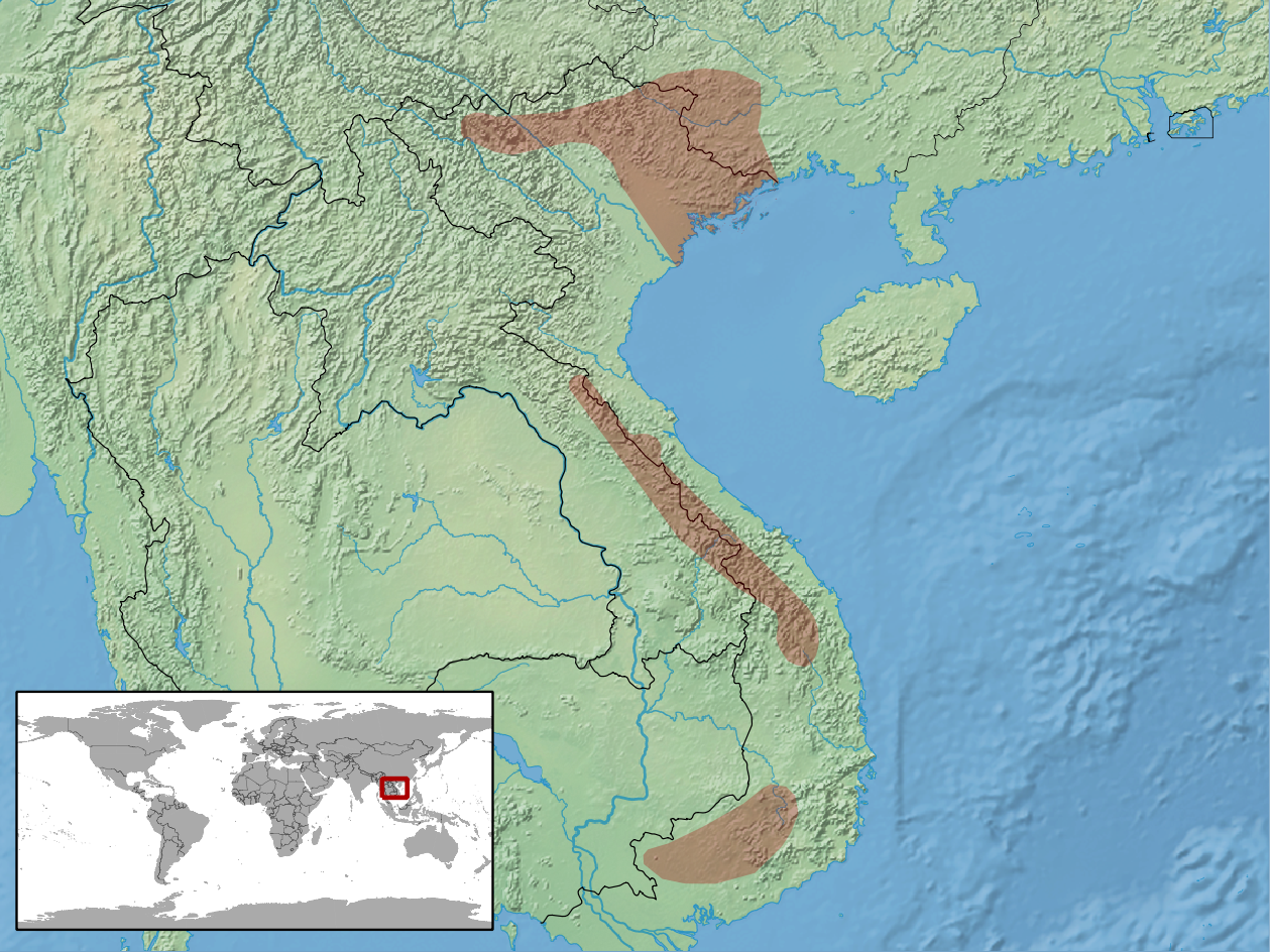 geographic distribution of Boiga guangxiensis (Native: China (Guangxi); Lao People's Democratic Republic; Viet Nam)